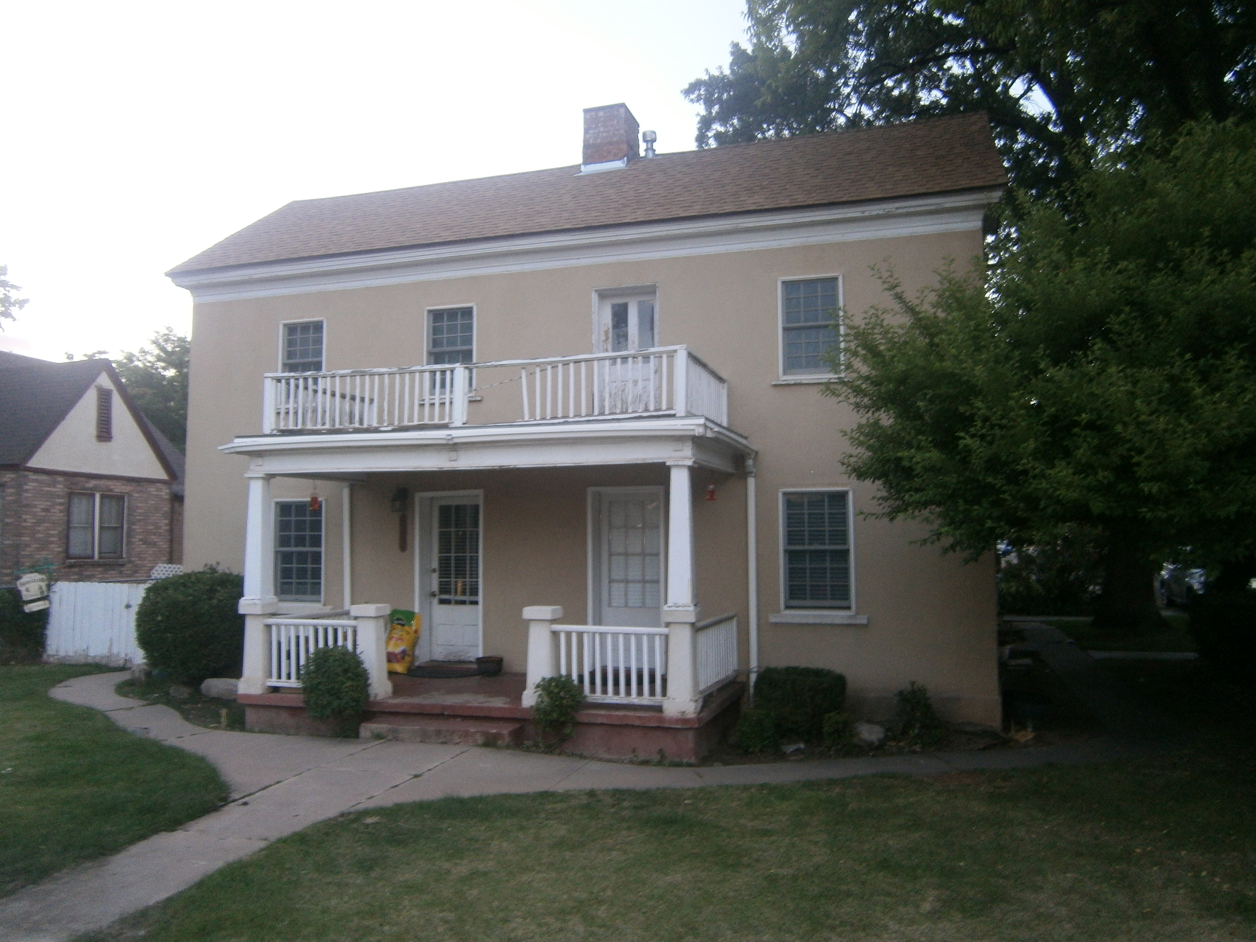 The Frederick and Anna Maria Reber House, a historic home in Santa Clara, Utah, United States.